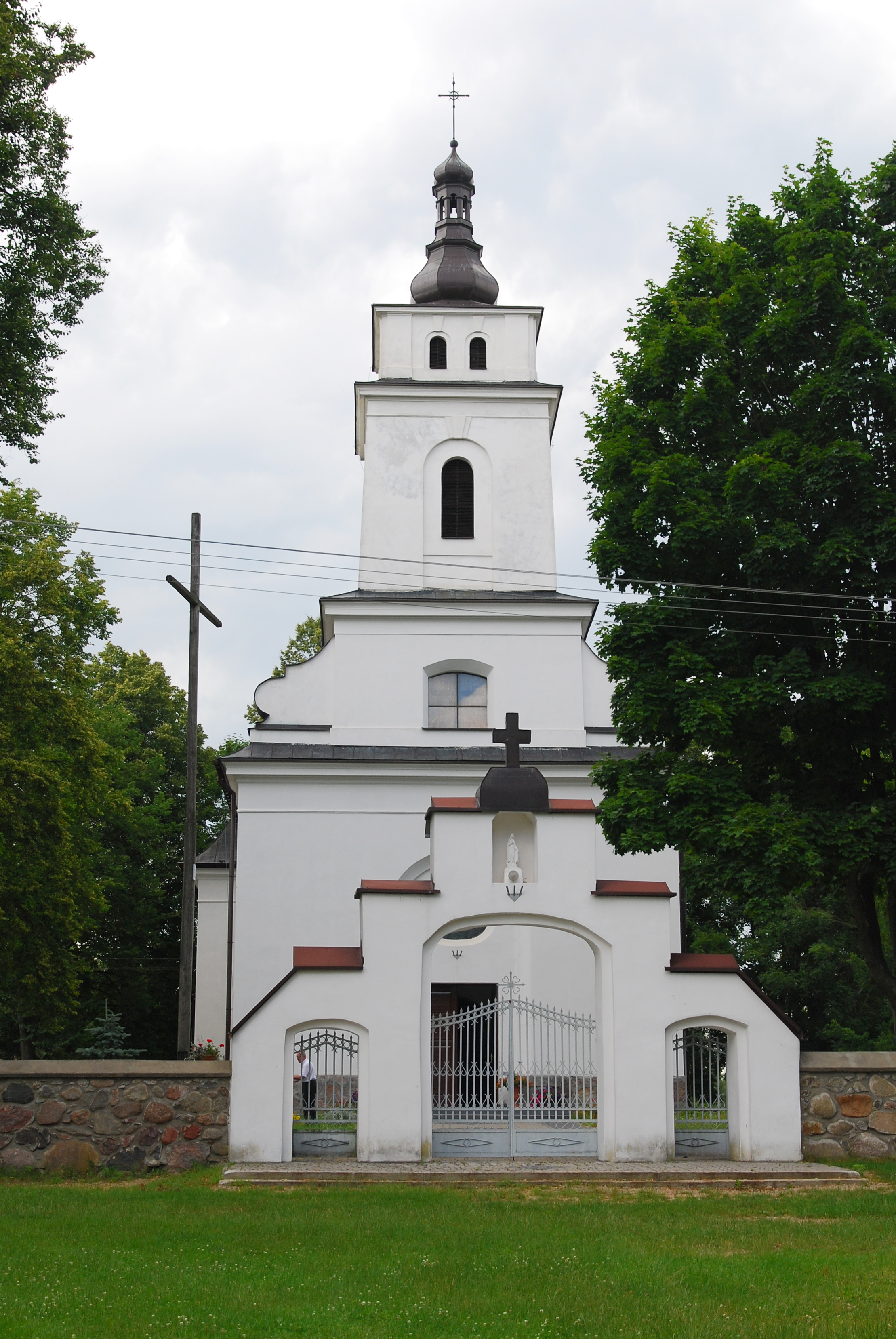 This photo from Podlaskie Voievodeship was taken during Polish Wikiexpedition 2009 set up by Wikimedia Polska Association. The making of this document was supported by Wikimedia Polska. Kosciół_pod_wezwaniem_przemienienia_NMP_Matki_Bolesnej_w_Osmoli